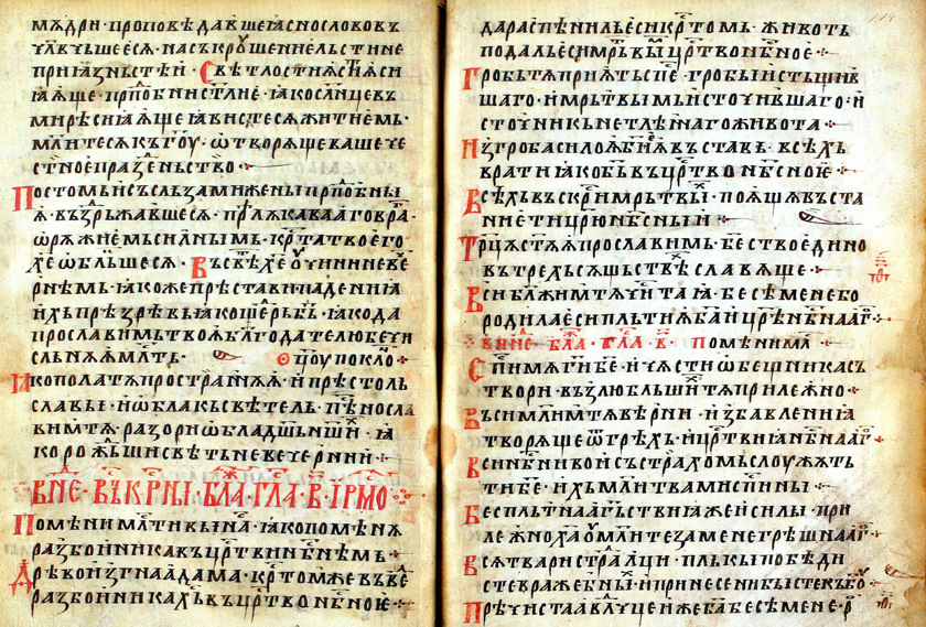 Pirdop Apostle Bulgarian script book in Bulgarian language from Elena Basilica scriptorium near Pirdop. Is Part Of: Dataset: 9200114_Ag_EU_TEL_a0516_Bulgaria_Manuscript Relations: Славянски ръкописи / Slavonic manuscripts